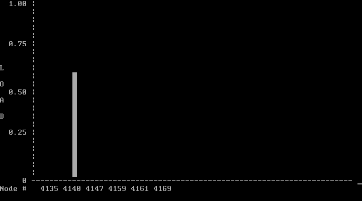 A six node CHAOS/openMosix cluster: The mosmon view with one process' load, launched from node two